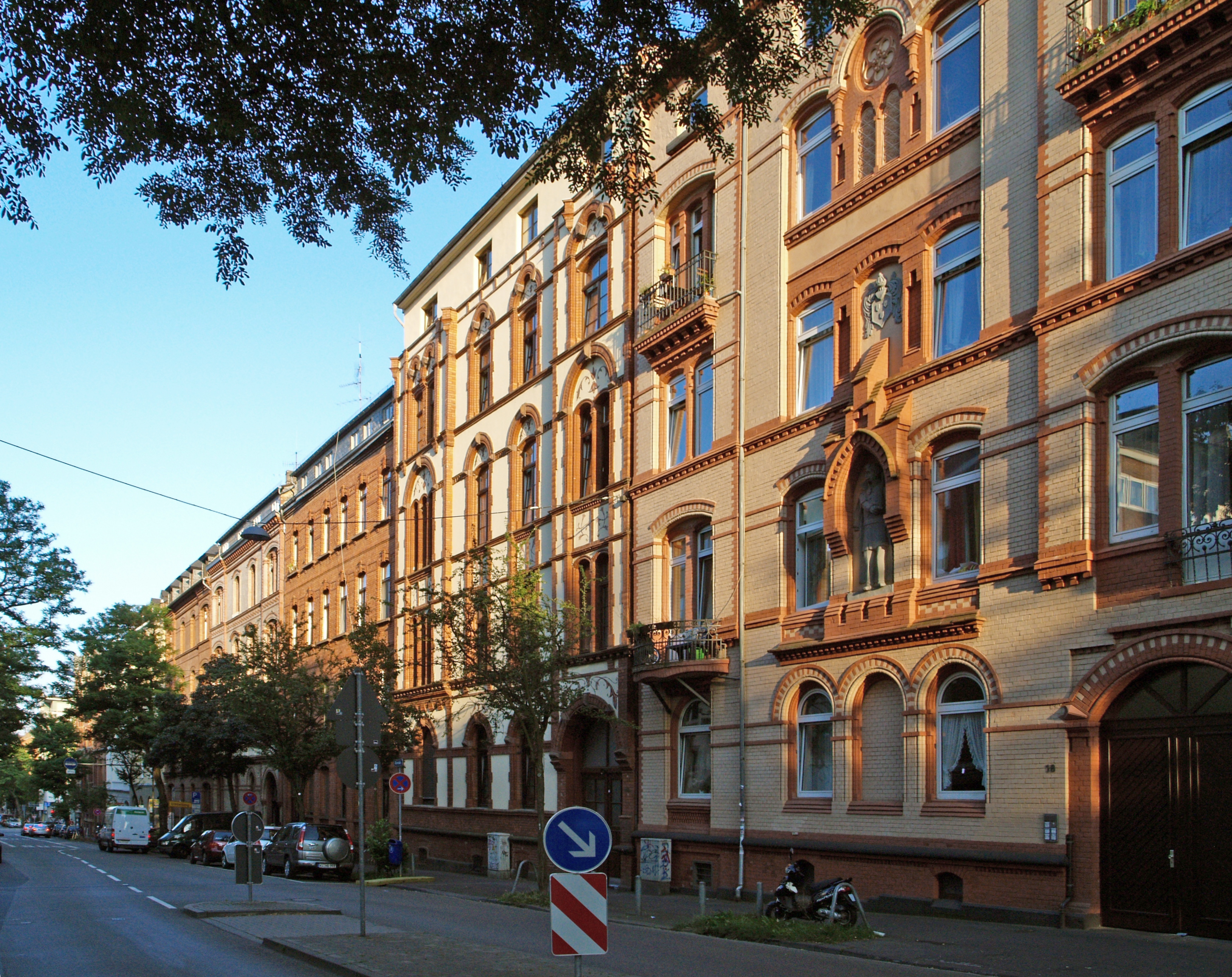 Facades in Bluecherstrasse in the Westend of Wiesbaden, Germany. The buildings are dated to the period around the year 1900.